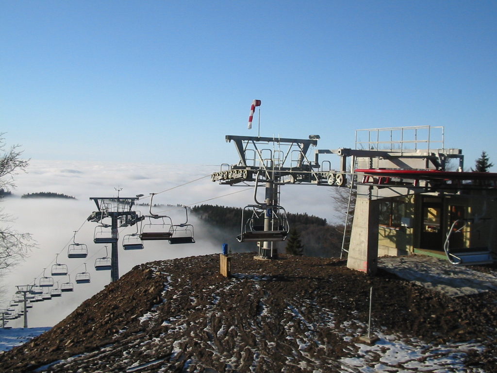 Benecko (Czech republic) - new chair lift